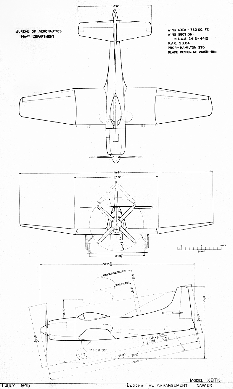 Three-view drawing of the Kaiser-Fleetwings XBTK-1.